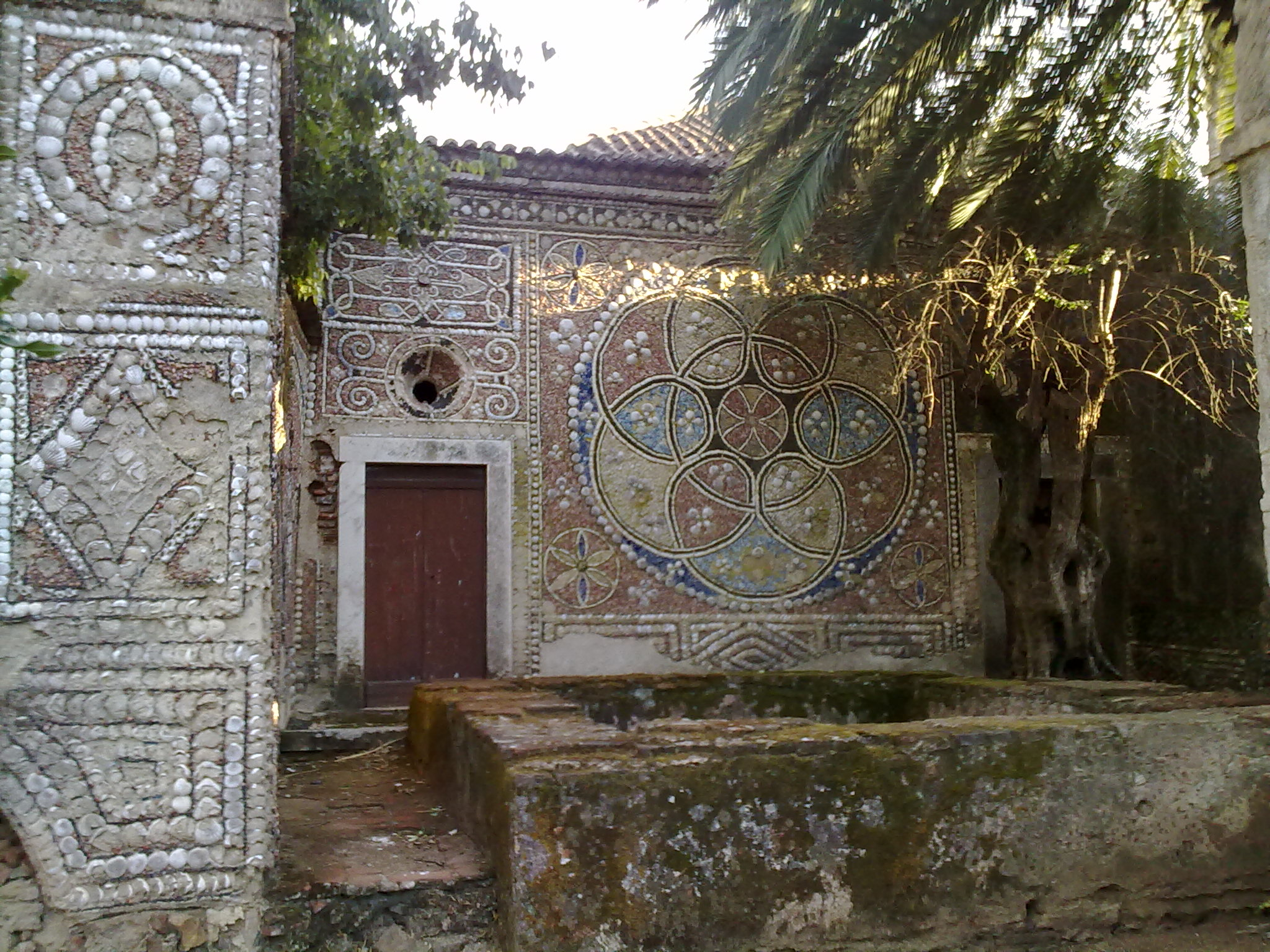 Garden of the "capela das conchas" chapel, Alcáçovas, Portugal.